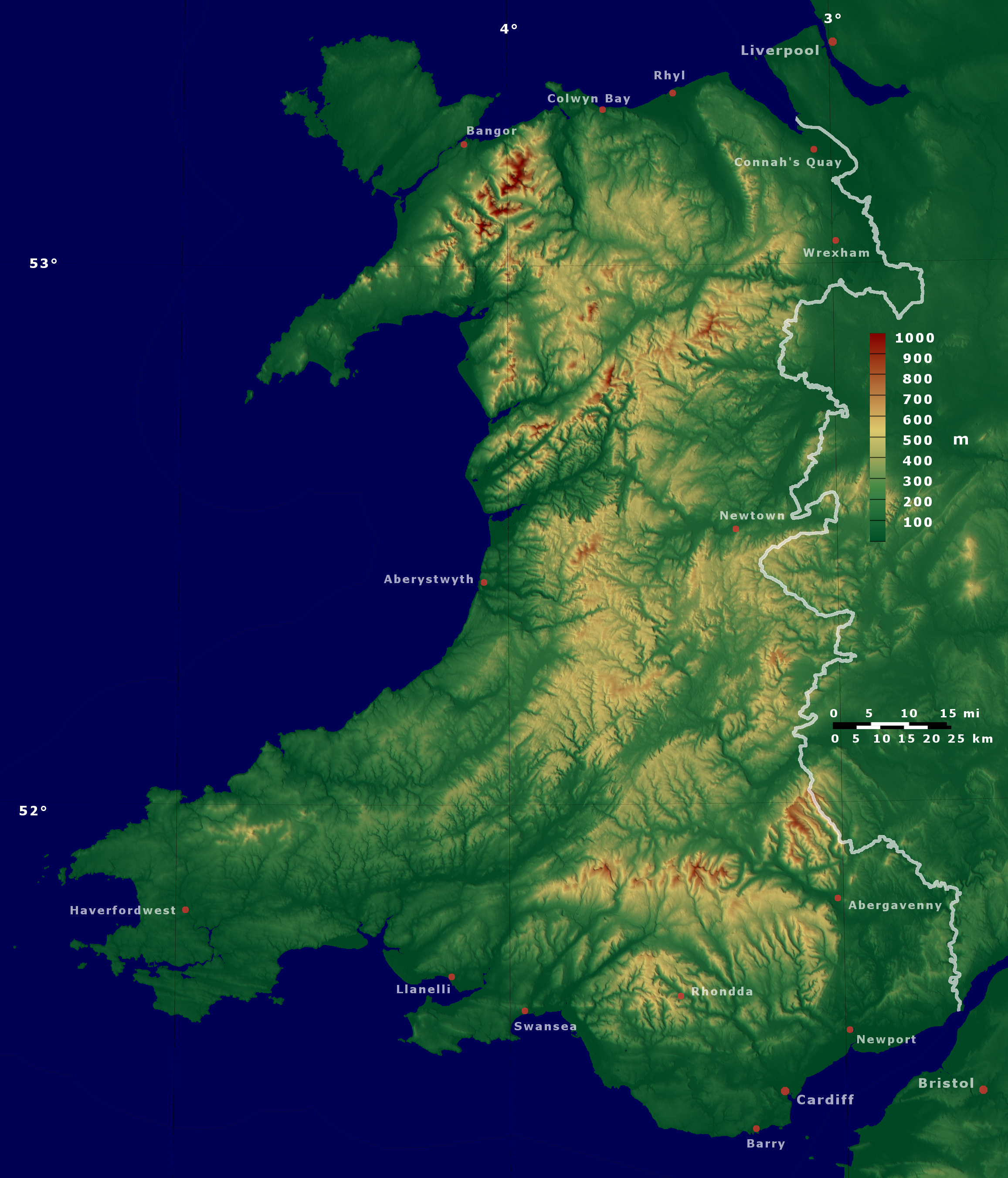 Map created with 3DEM from SRTM ( Administrative boundaries from OpenStreetMap.